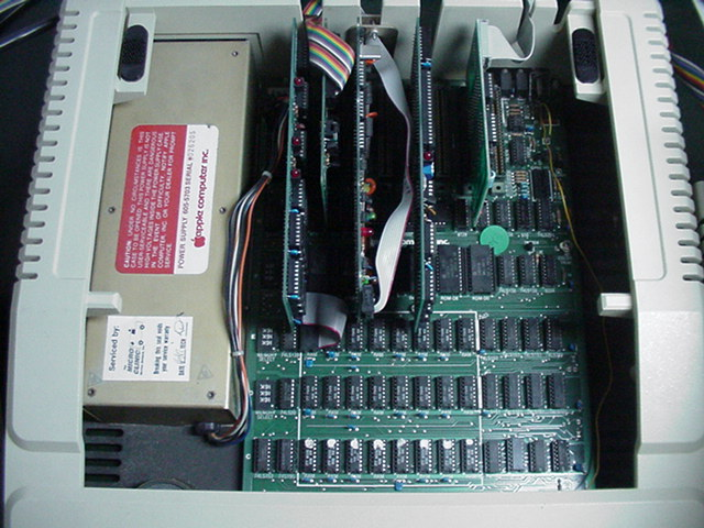 Inside of Apple II Plus with multiple add-in cards.